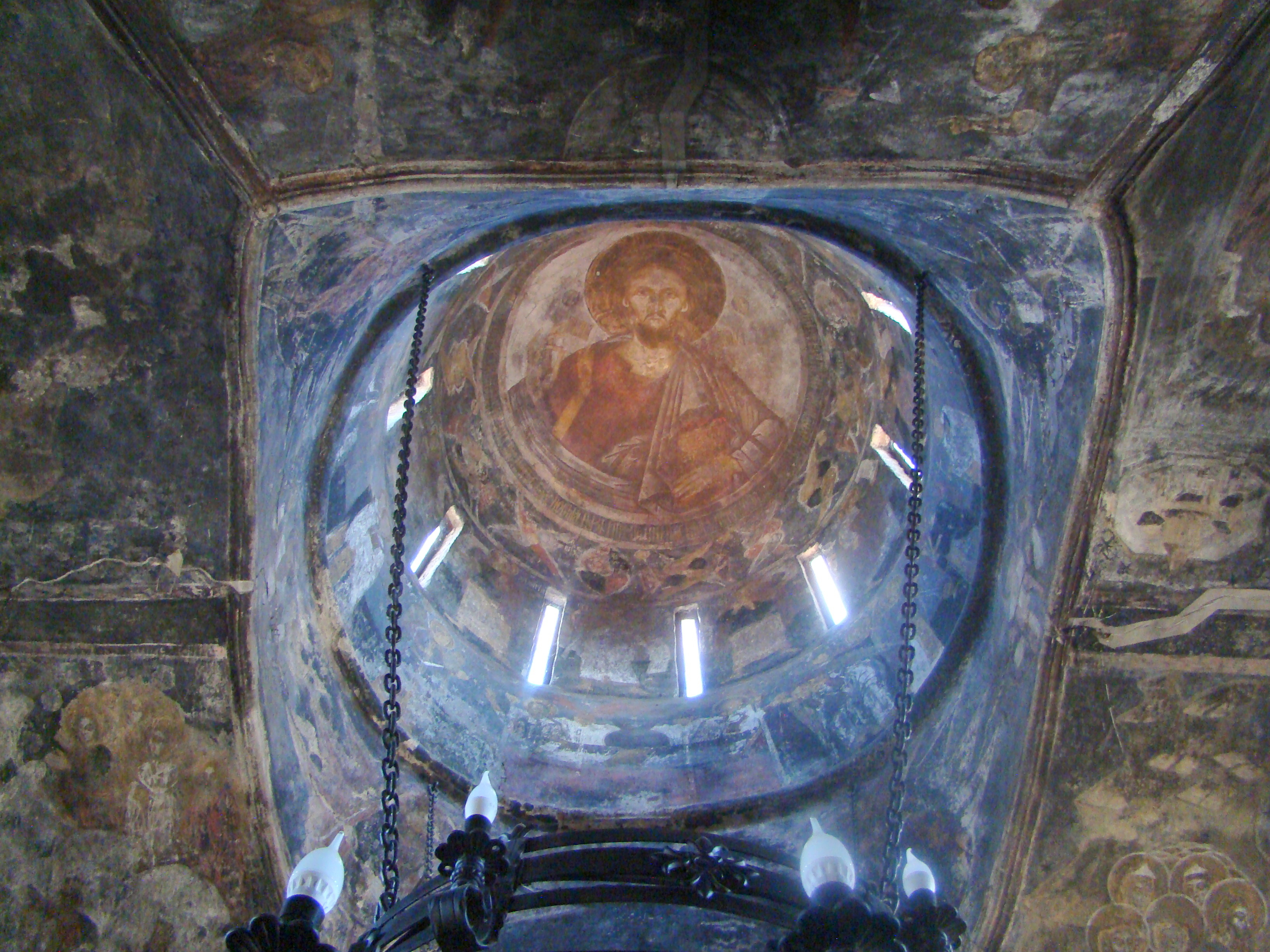 Saint Nicholas church in Hunedoara, Hunedoara county, Romania